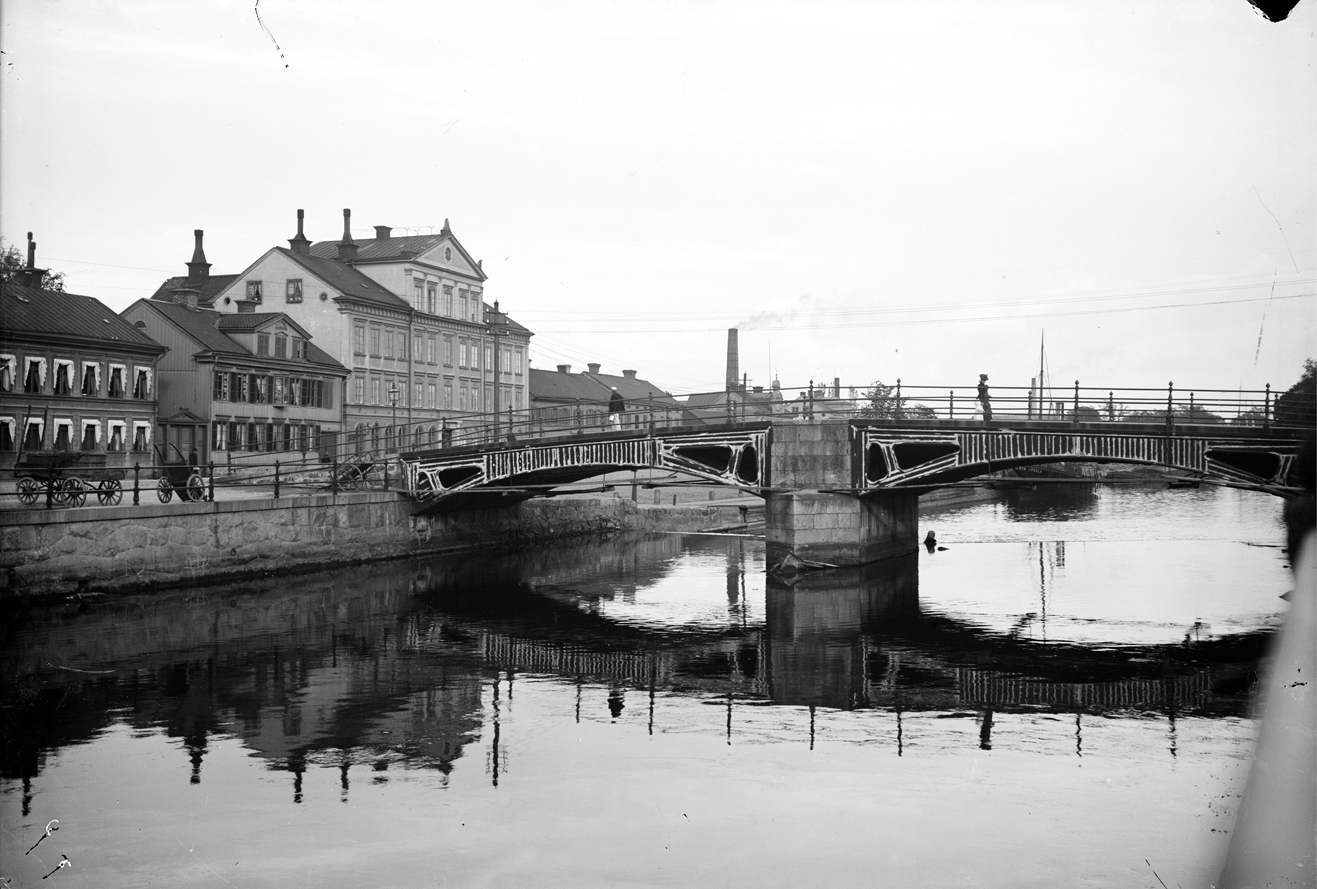 Islandsbron och Östra Ågatan med kvarteret Gudrun, Uppsala 1880-tal. Fyris river in Uppsala, Sweden 1880 - 1890. Upplandsmuseet: OB0031 Flickr data on 2011-08-24: Tags: Uppsala, Uppland, Sweden, Bridge, Fyrisån License: CC BY 2.0 User: Upplandsmuseet Upplandsmuseet Länsmuseum för Uppsala län